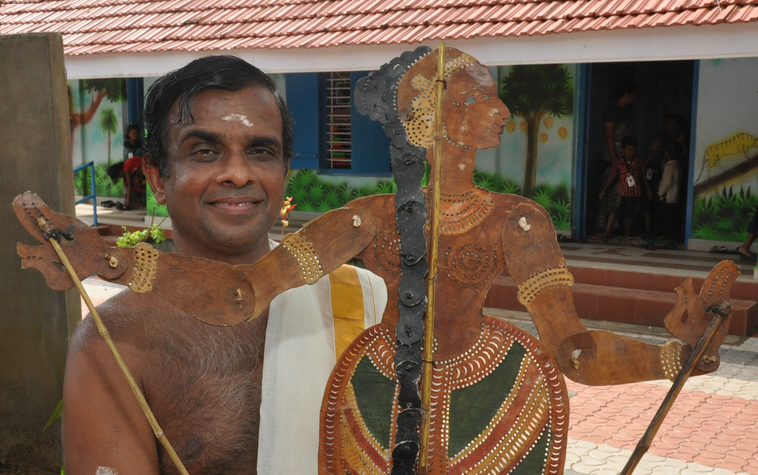 Noted Shadow puppetry (Tholpavakooth)artist, Ramachandra pulavar at Kollam Govt S.N.D.P.U.P.School, Pattathanam